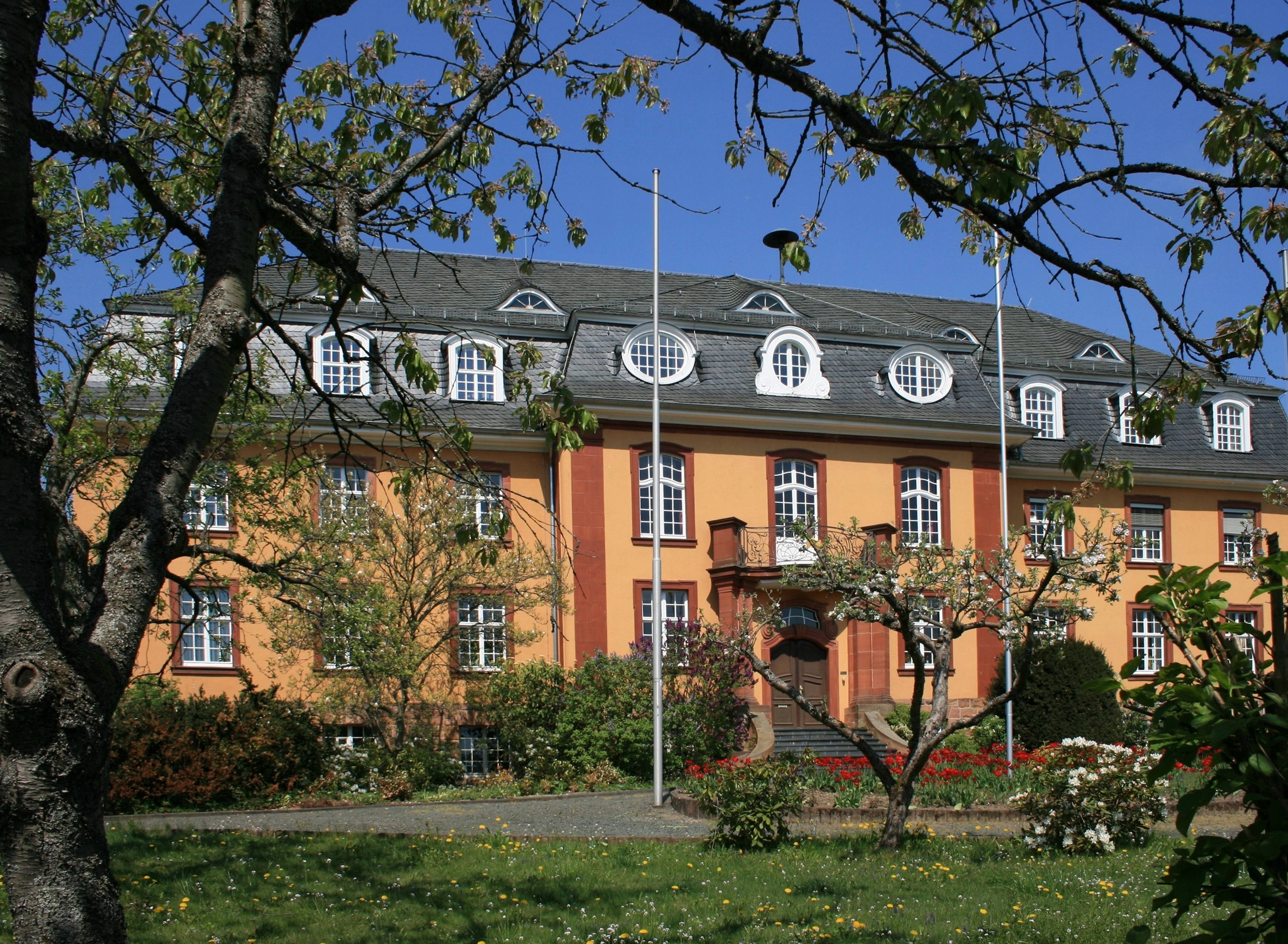 Germany, Hesse, Biedenkopf/Lahn: Branch of the district administration of the district of Marburg-Biedenkopf, district office.